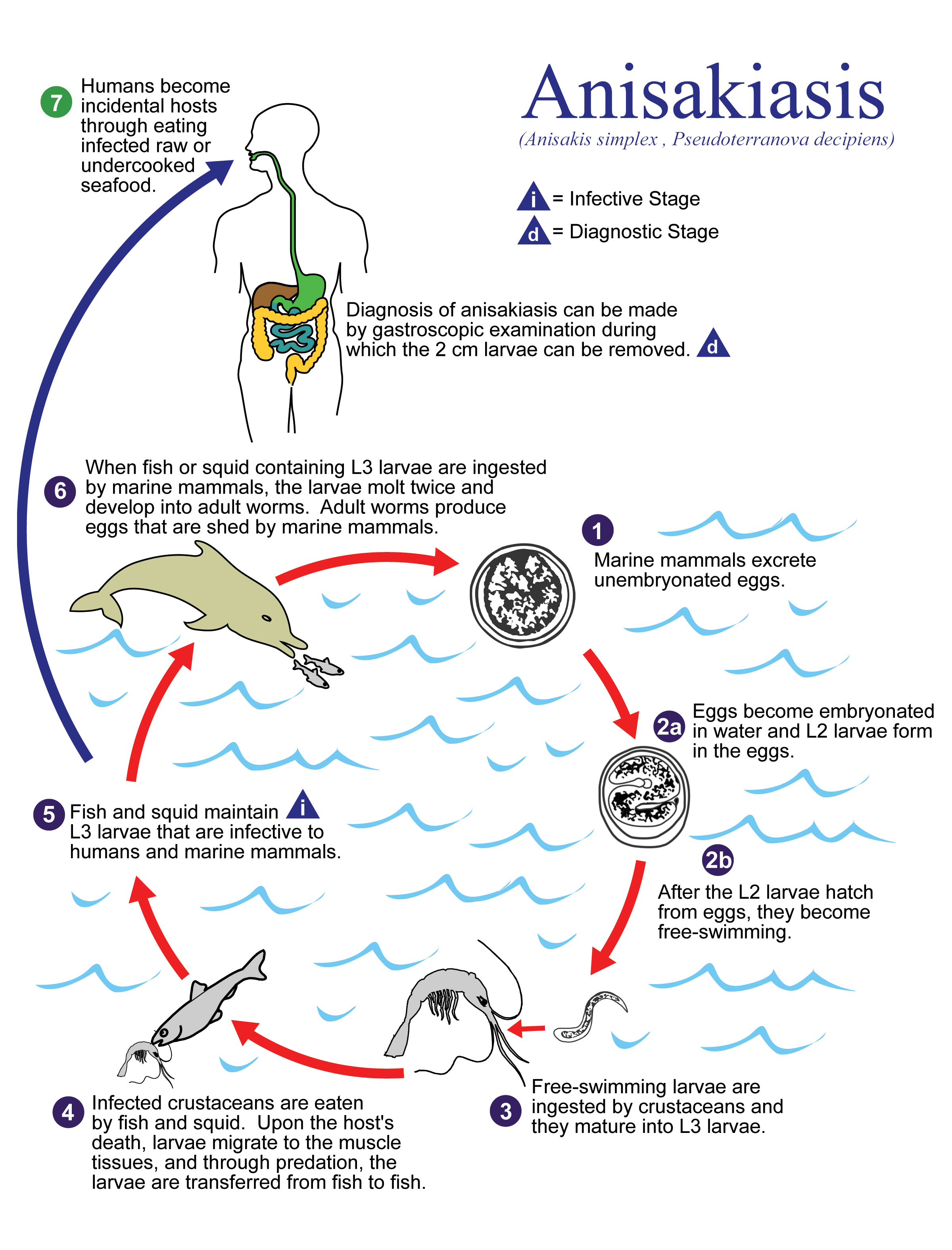 The life cycle of Anisakis simplex and Pseudoterranova decipiens, the causal agents of Anisakiasis.